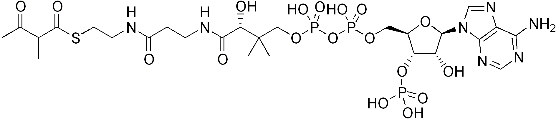 chemical structure of 2-methylaceto-acetyl-CoA